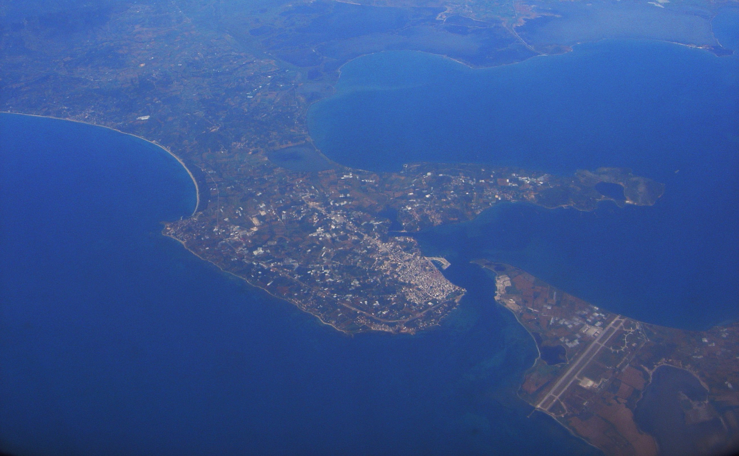 Preveza, Greece, from above (boosted colors)